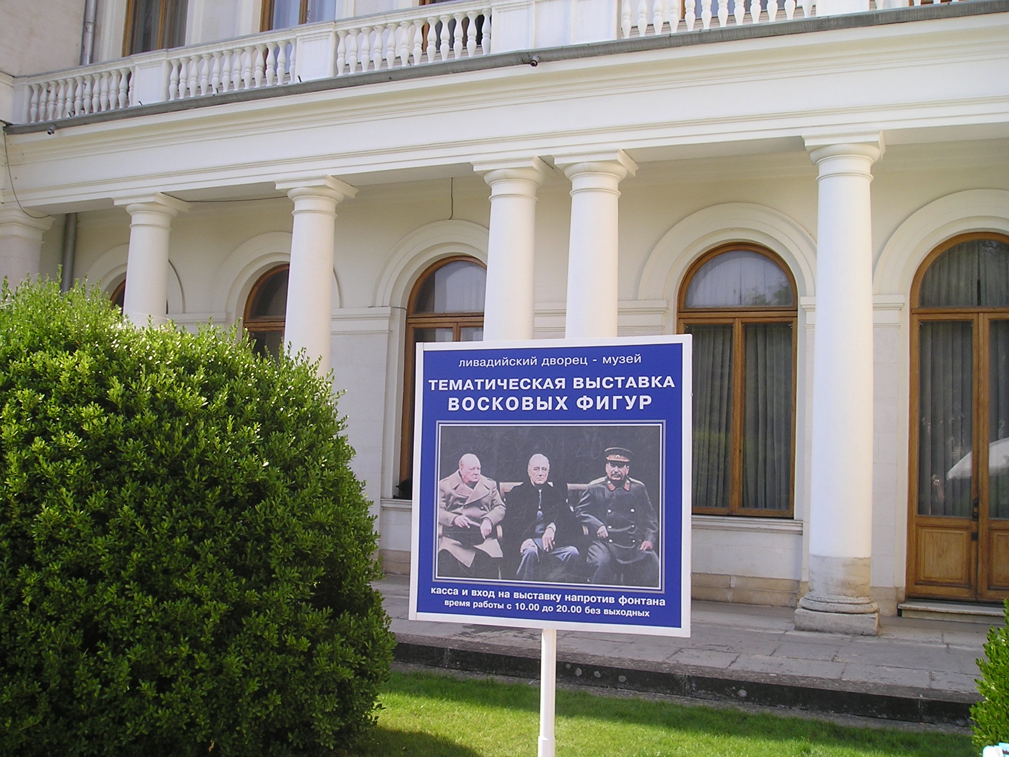 Liwadija-Palace, Yalta Confernece 1945